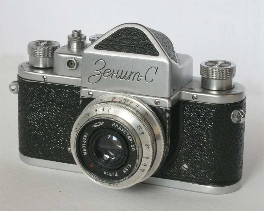 Zenit-S camera (USSR, 1955) with Industar-50 3,5/50 lens